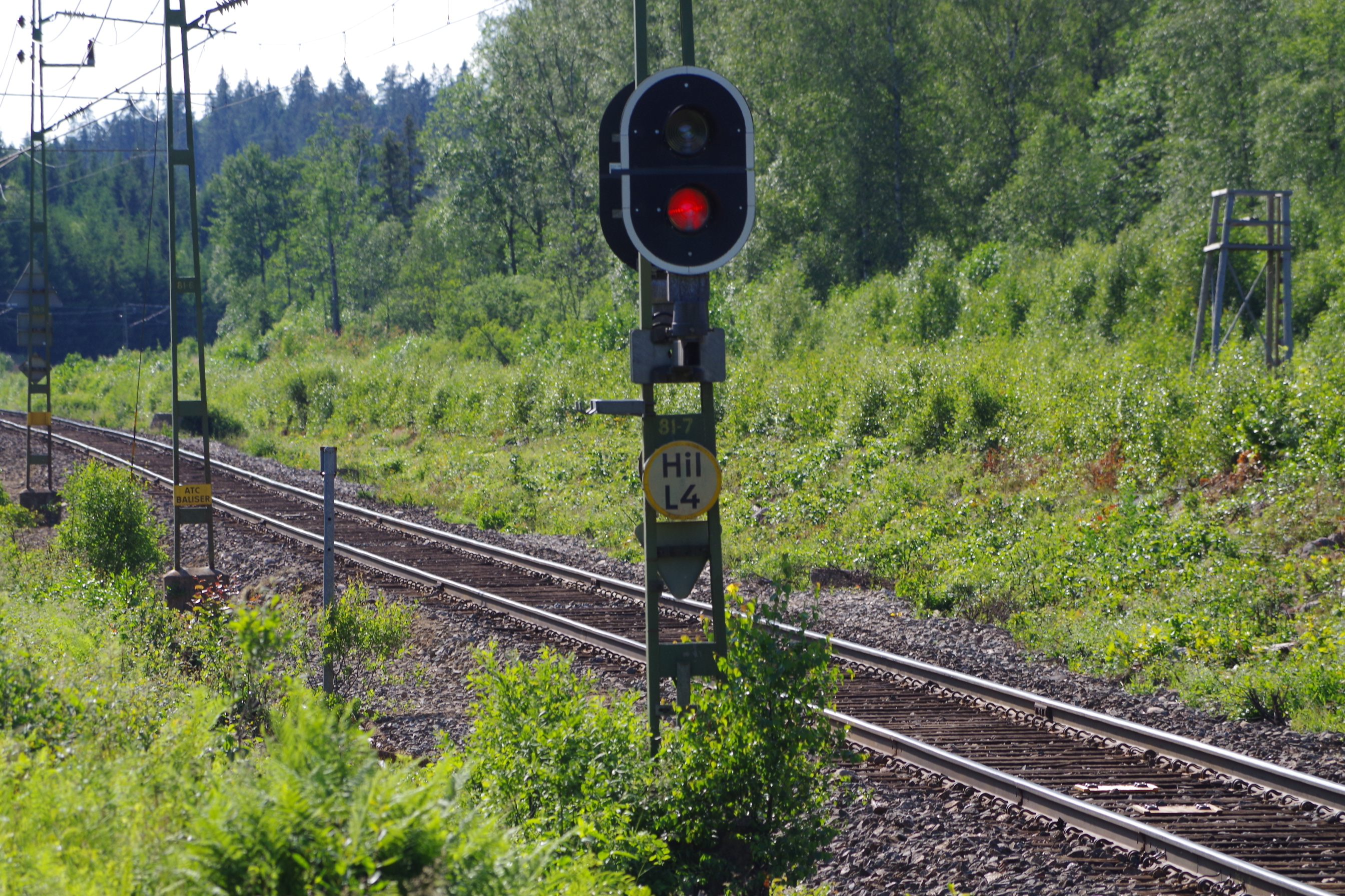 The signal is red. In this situation the red light shows that a train recently has passed towards the photographer.